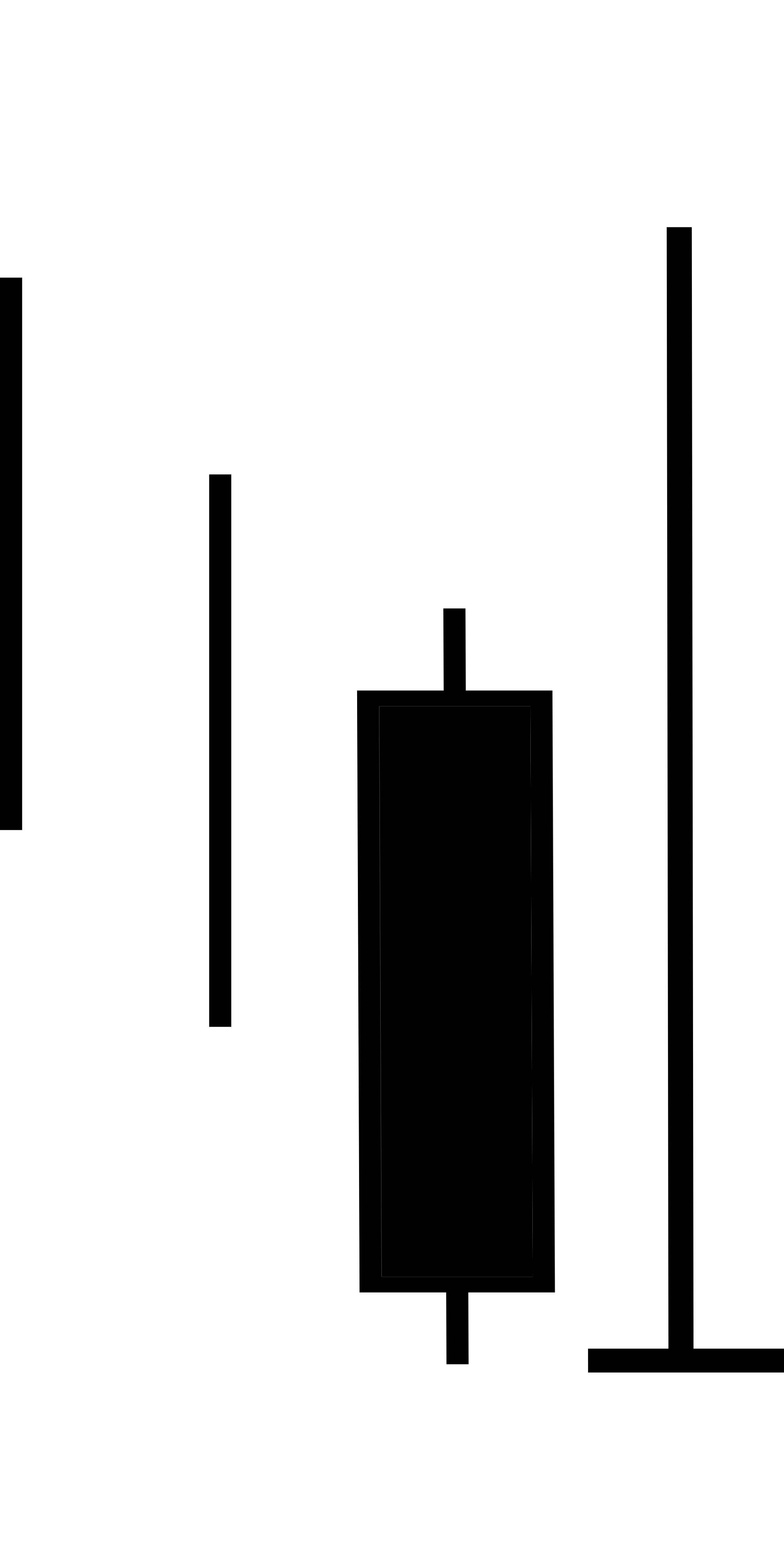 Bullish Gravestone